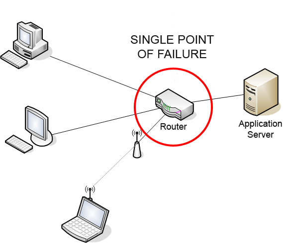 An English rendition of Charles Féval's original